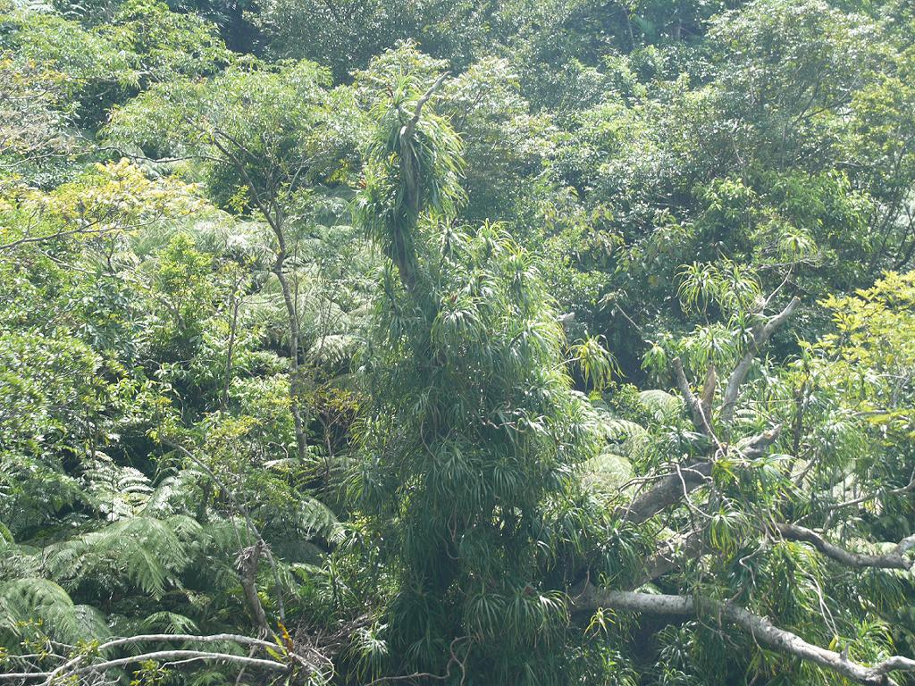 Freycinetia formosana (Pandanaceae). Iriomote Island, Okinawa prefecture, Japan. Japanese name: Turuadan ：ツルアダン Date;2009-08-10 Author;Keisotyo